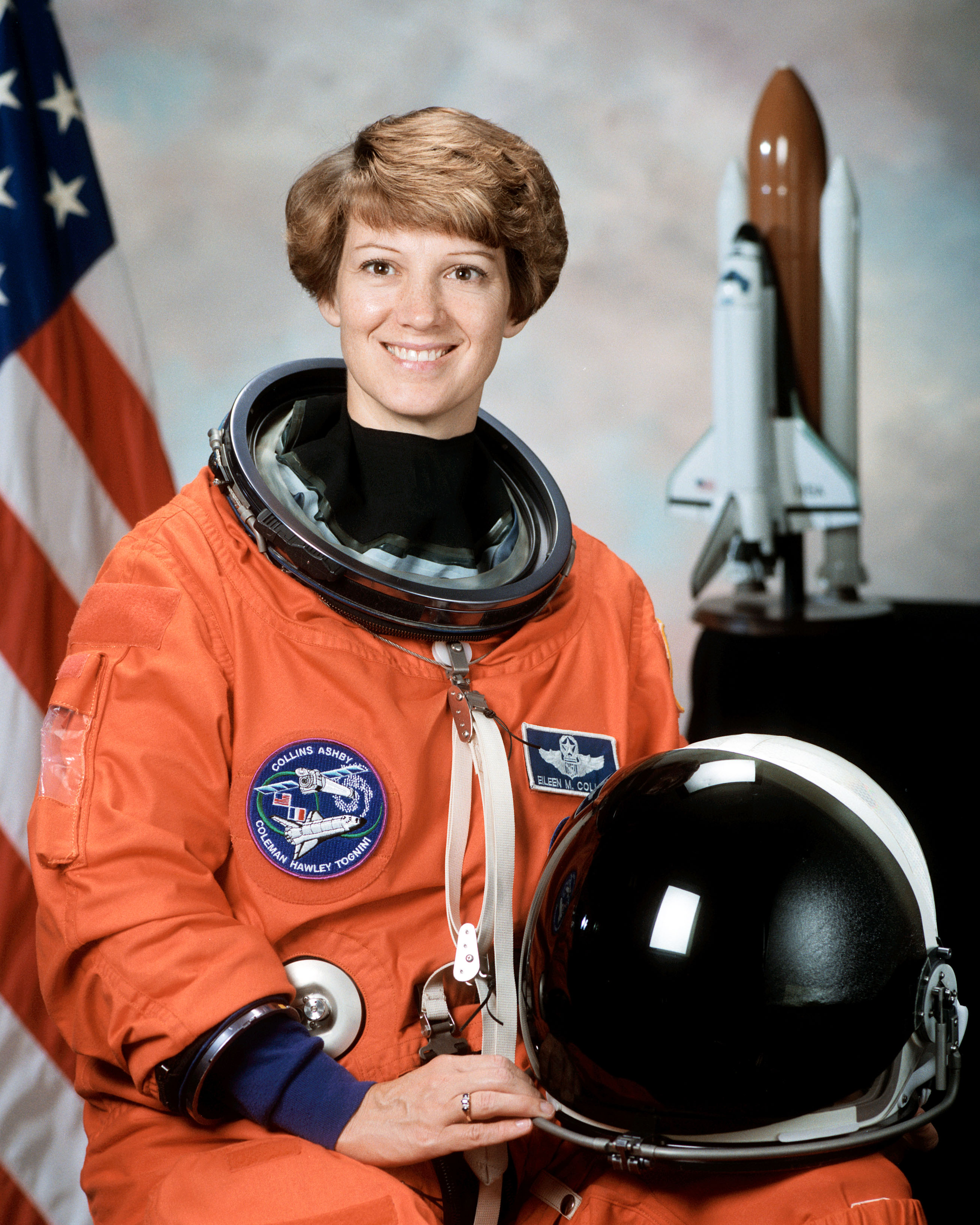 STS-93 Commander, Eileen M. Collins shown wearing an orange Launch and Entry Suit (LES) with helmet. Collins was the first woman to command a Space Shuttle mission.